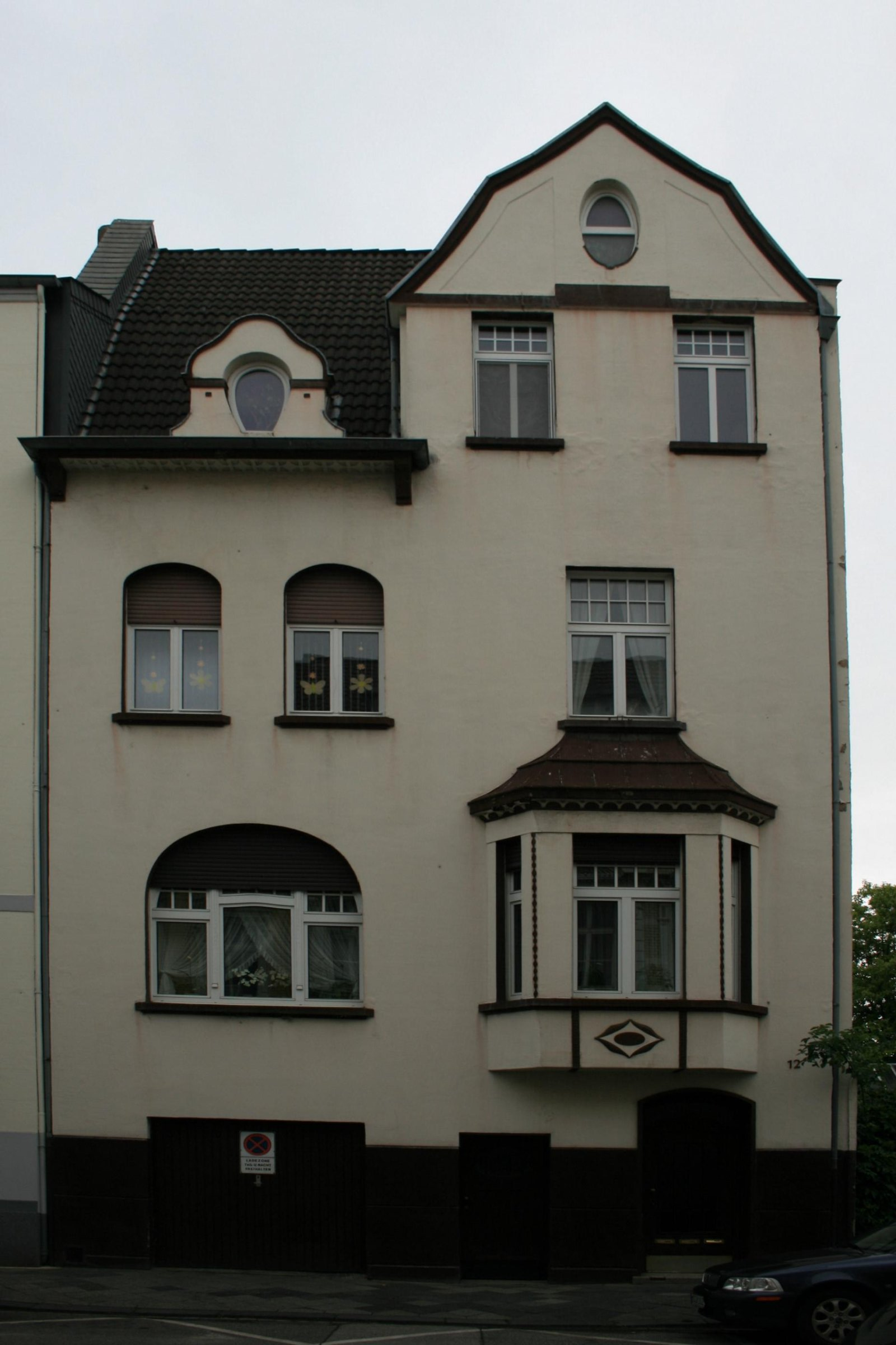 Cultural heritage monument No. St 032 in Mönchengladbach